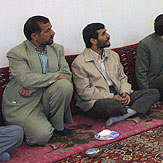 Ali Borughani